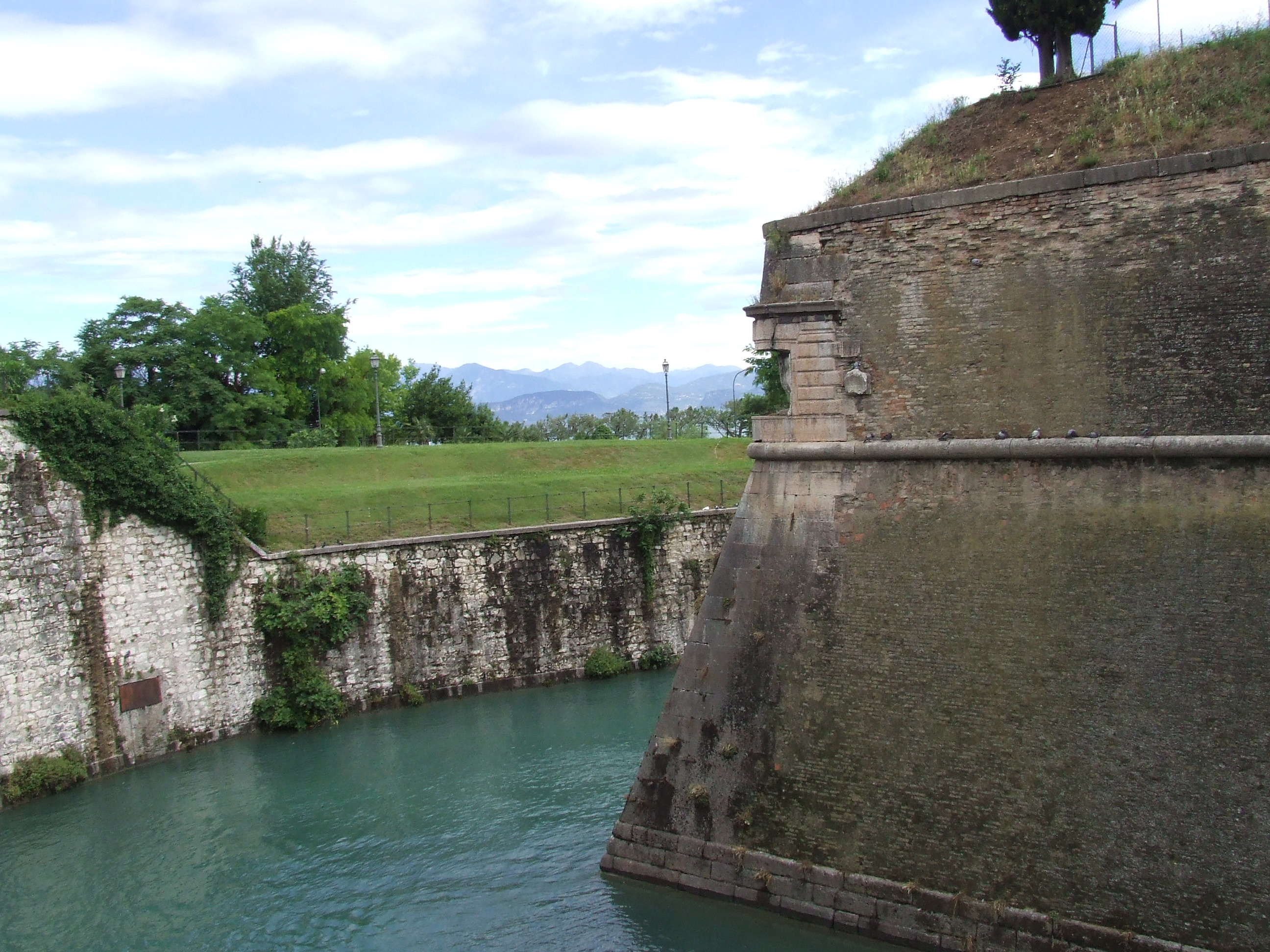 Western corner of the fortress island located in Peshiera del Garda. It is the narrowest channel of the Mincio river that drains Lake Garda. Detail shows the Lion of Saint Mark - the symbol of Venice, which built that section of the fortress.